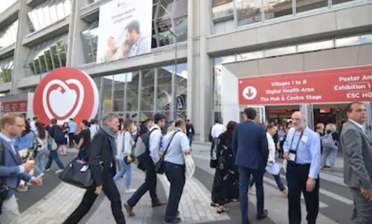 Picture of the ESC Congress taking place in Paris in 2019